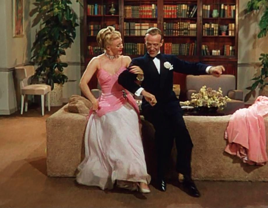 Fred Astaire & Ginger Rogers in The Barkleys of Broadway - trailer (cropped screenshot)